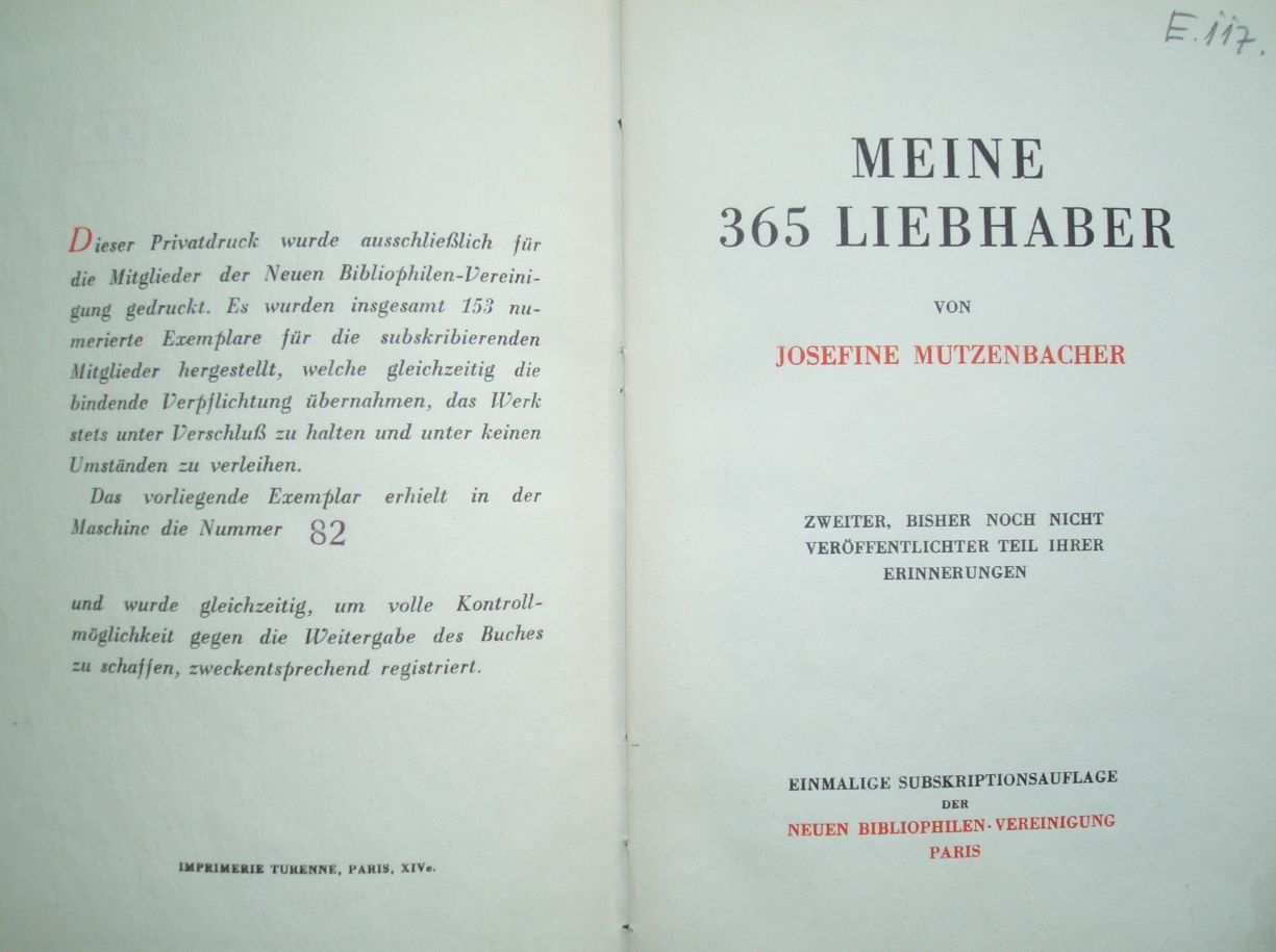 Note: No chance to find out who is the copyright owner. Some attorneys of different times and countries have tried it.